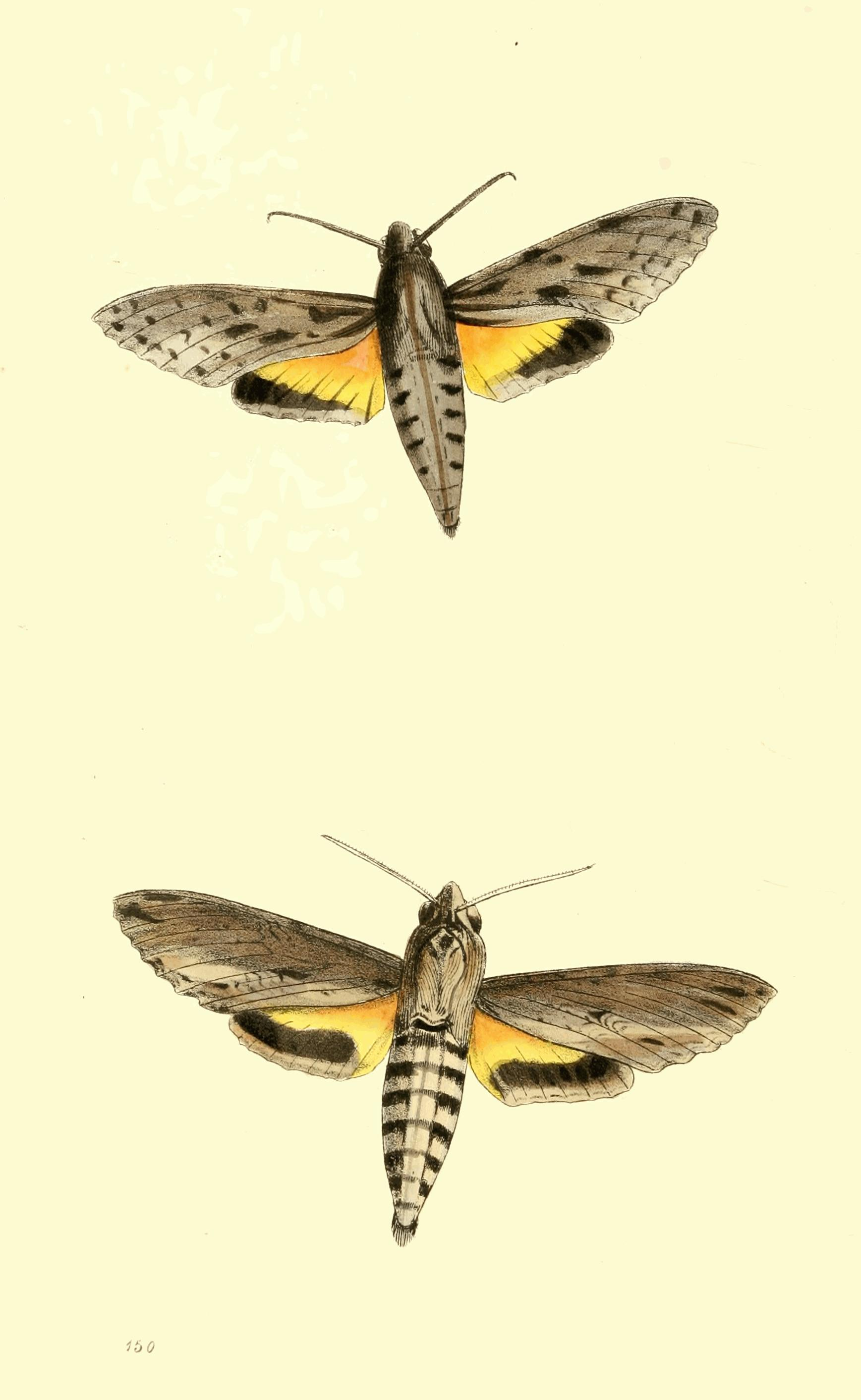 Plate 150. Sphinx fasciata (lower figure). Modern accepted name (2012) is Erinnyis alope[1]. Sphinx Leachii (upper figure). Modern name is Isognathus leachii.[2].